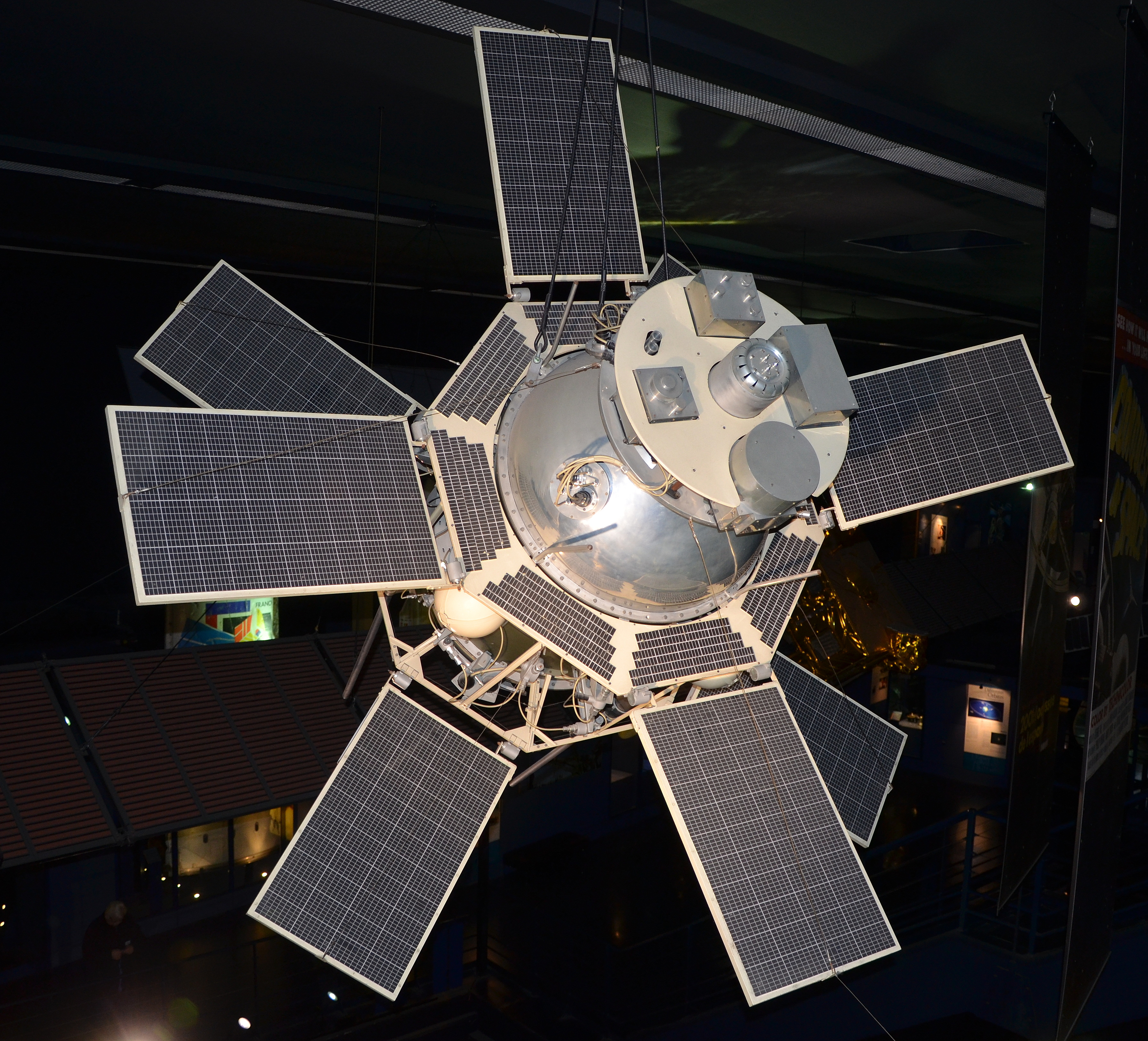 Mockup of the satellite Intercosmos 1 launched the 13 octobre 1969 by the Soviet Union.